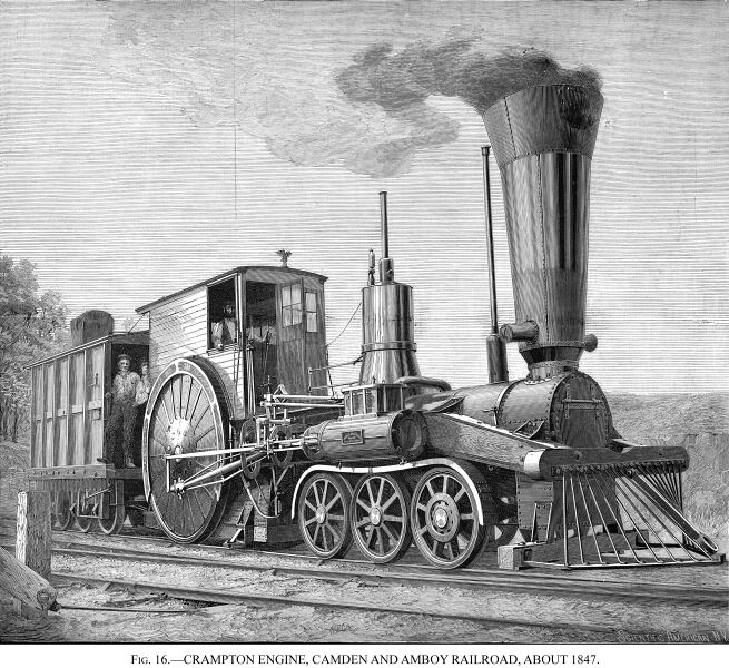 Crampton Engine, Camden and Amboy Railroad, about 1847.